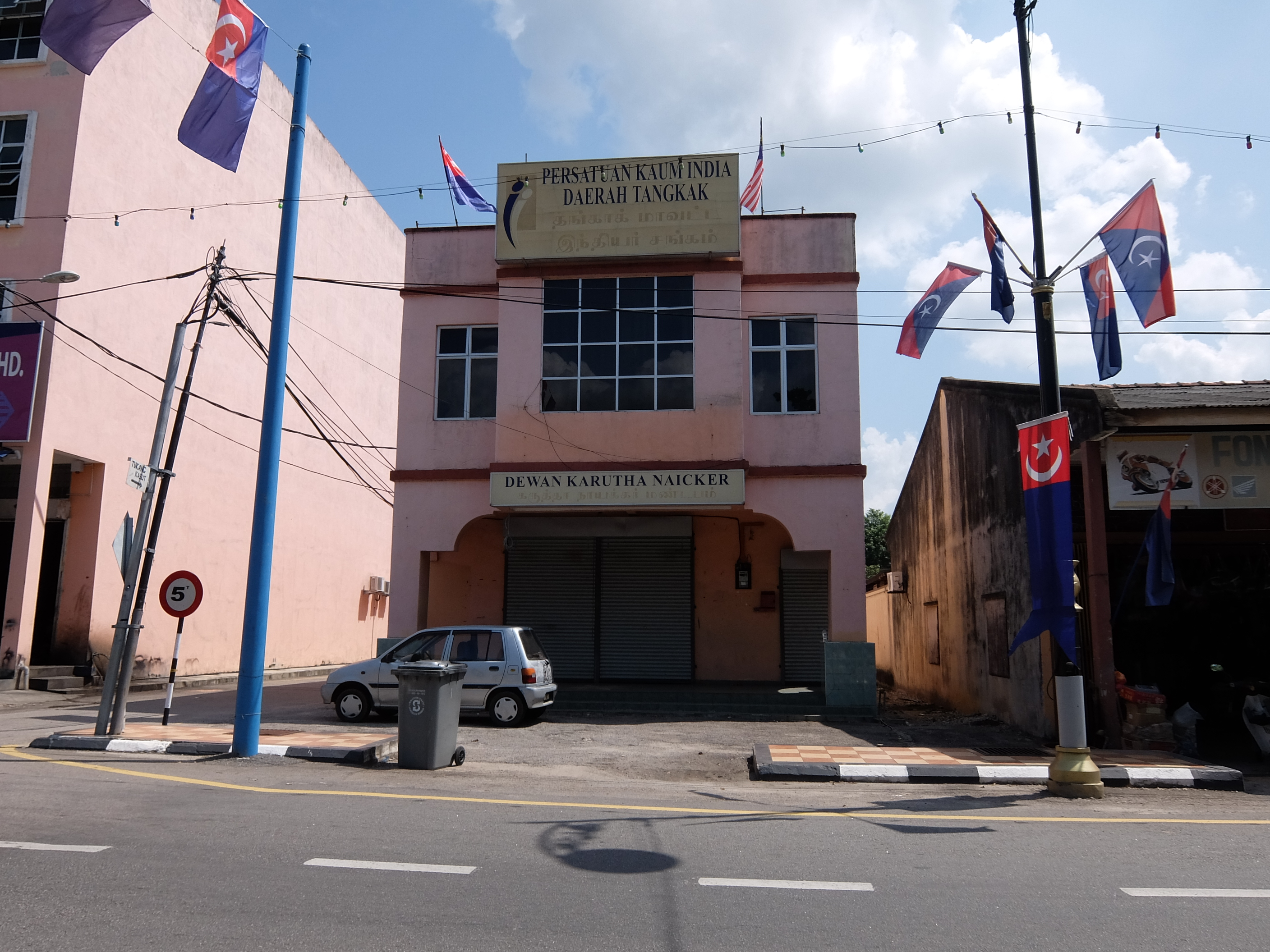 Karutha Naicker Hall, Tangkak, Johor, Malaysia